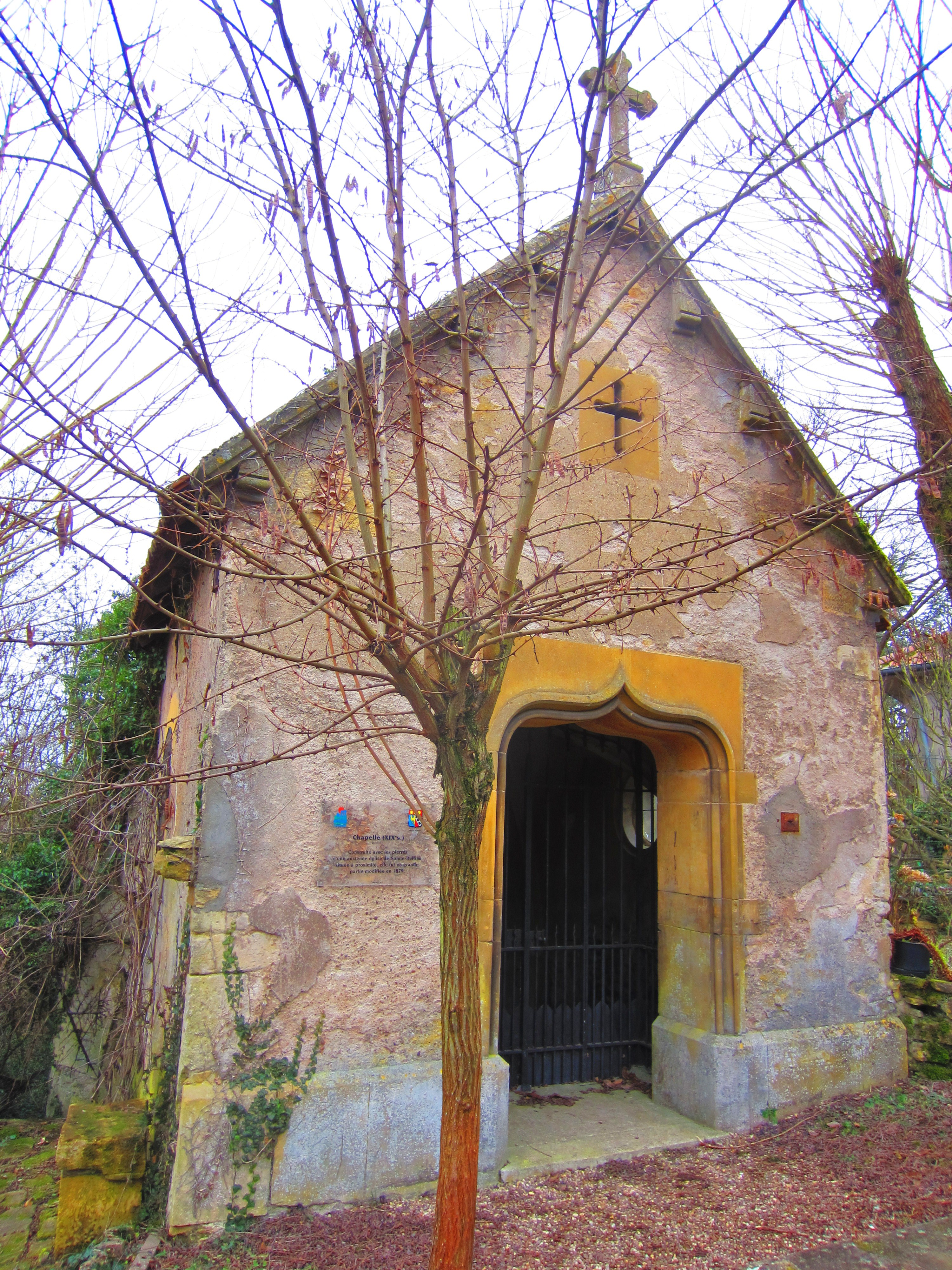 Ste Ruffine chapel